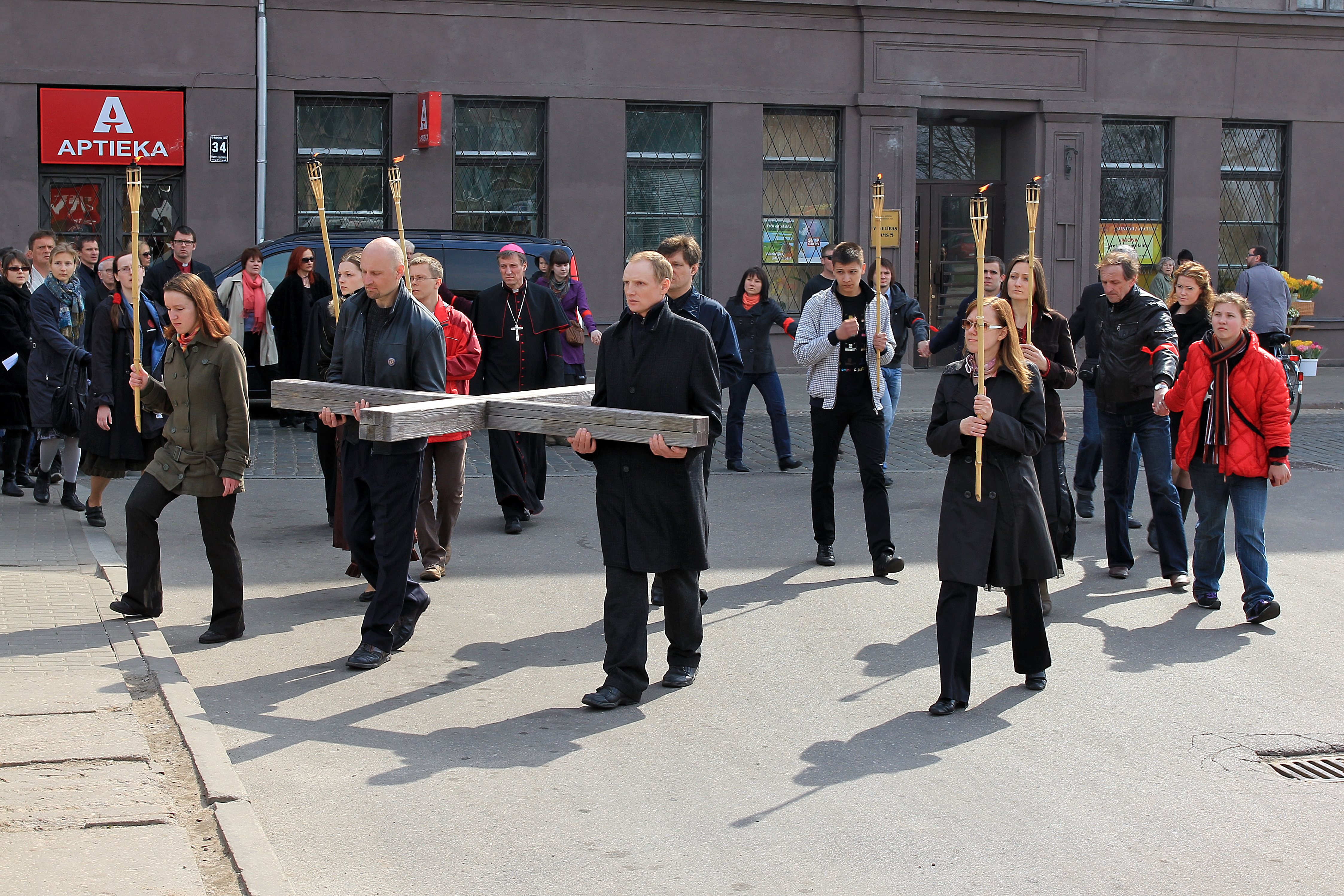 Front part of the ecumenical Good Friday Procession in Riga 2011 (continues to the left).